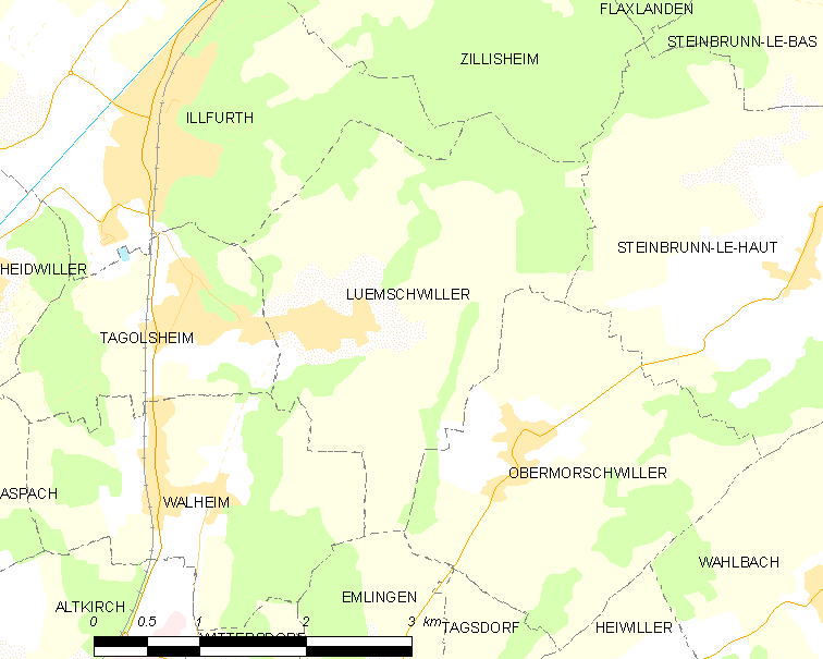 Map of French municipality